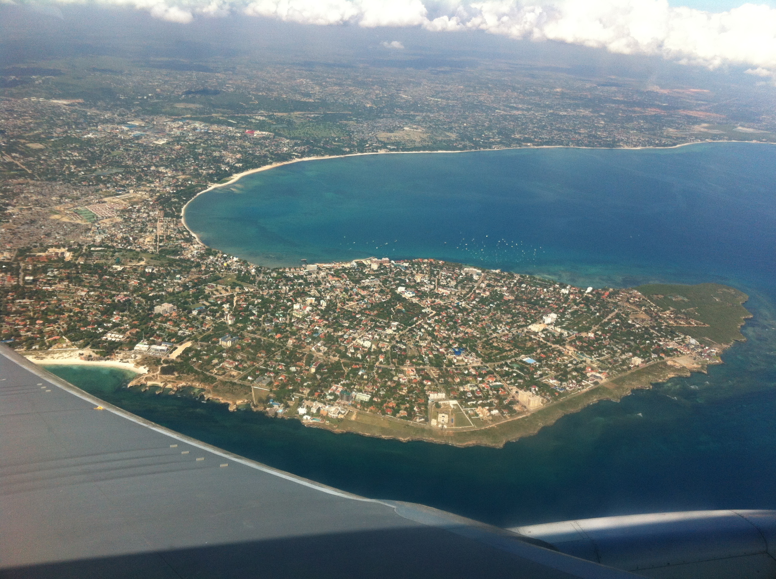 Msasani